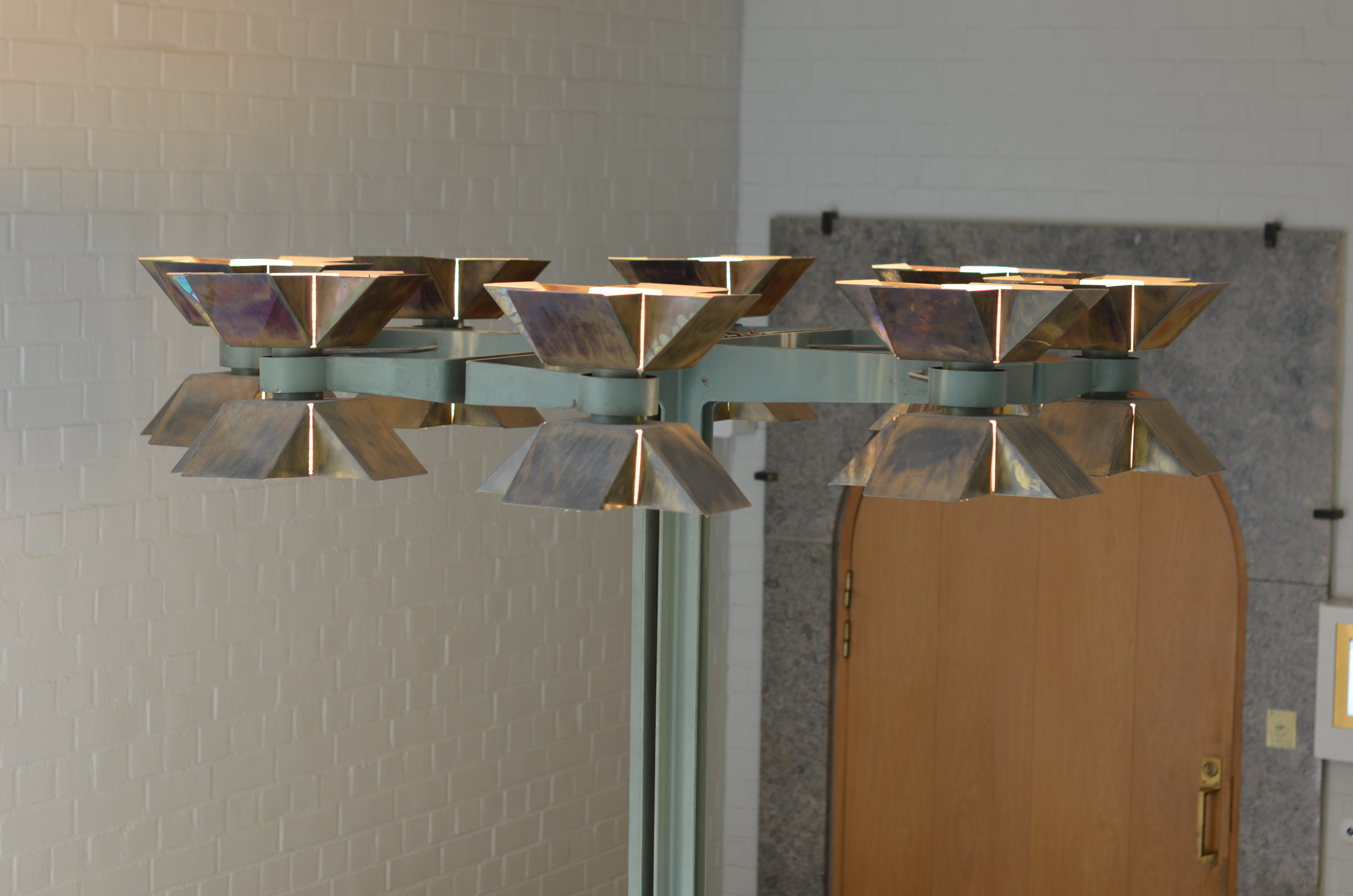 Belysningsarmatur i entrén till Visby tingshus, formgiven av Lennart Lundström. Lamps in the entrance of Visby Courthouse, designed by Lennart Lundström